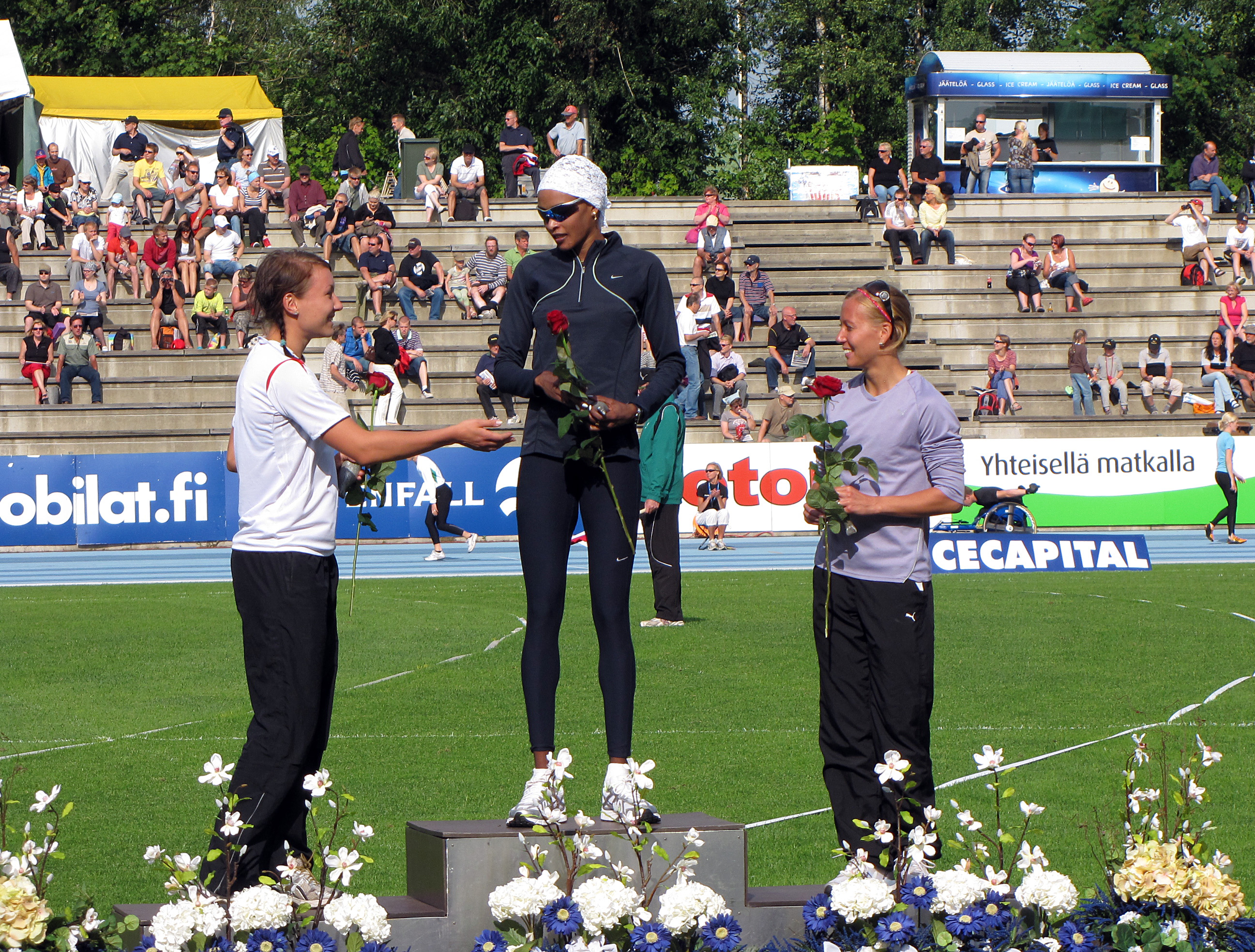 Lappeenranta Games 2009 (EAA Classic Meeting). Women's 400m hurdles. On the podium: Emma Millard, Muna Jabir (winner), Ilona Ranta.